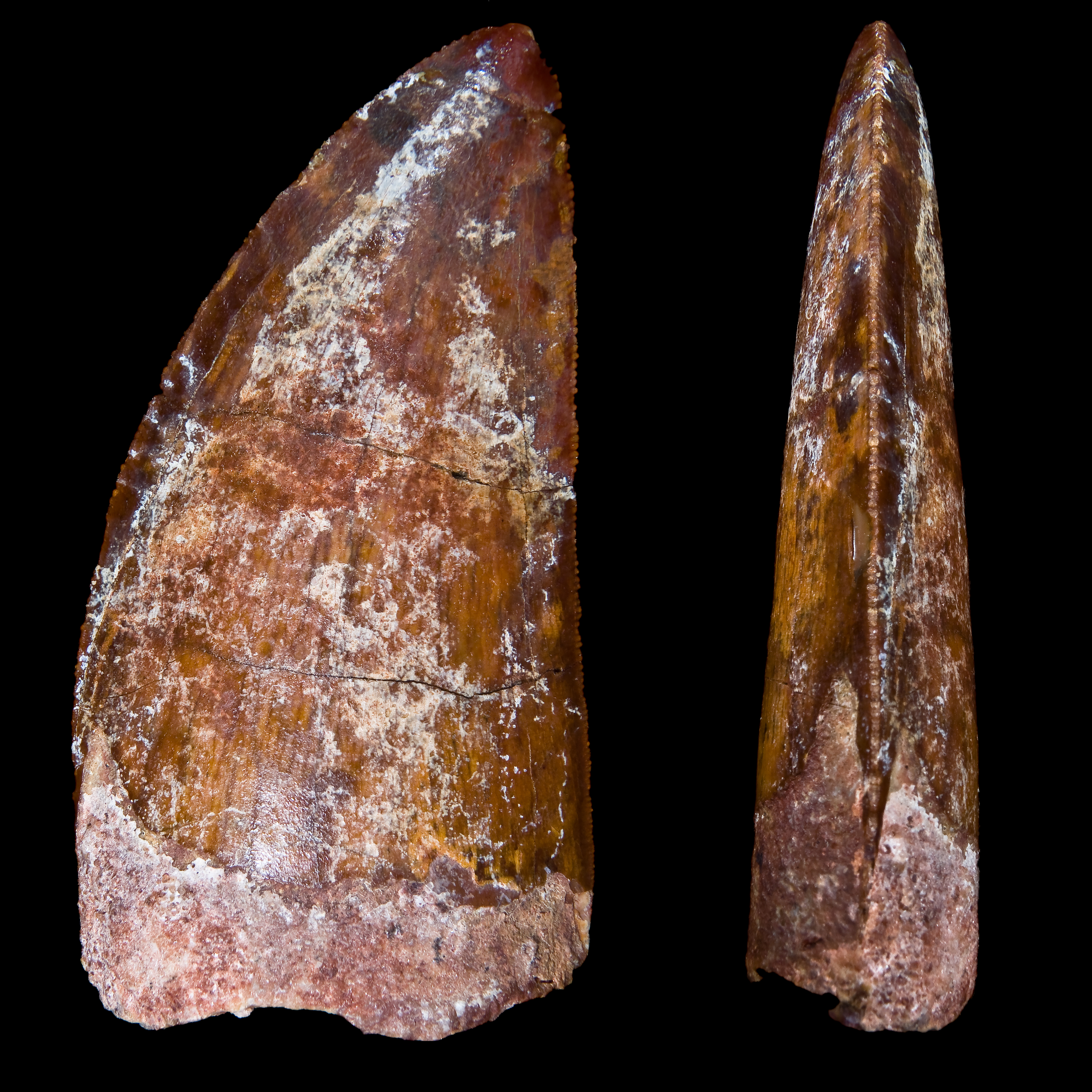 Carcharodontosaurus saharicus - tooth : face and profile of the same specimen. Morocco (6 cm)